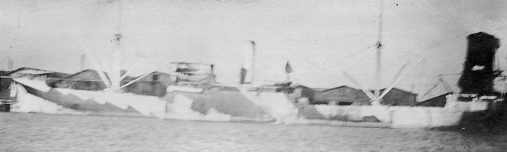 The commercial cargo ship SS Eastern Chief, photographed possibly when she was inspected by the US Navy's 6th Naval District at Charleston, South Carolina, for potential naval service. She later served as the U.S. Navy cargo ship USS Eastern Chief (ID-3390).